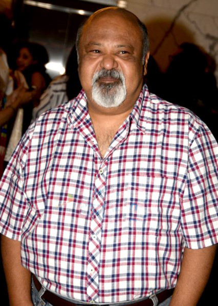 Saurabh Shukla graces the screening of Sonata.